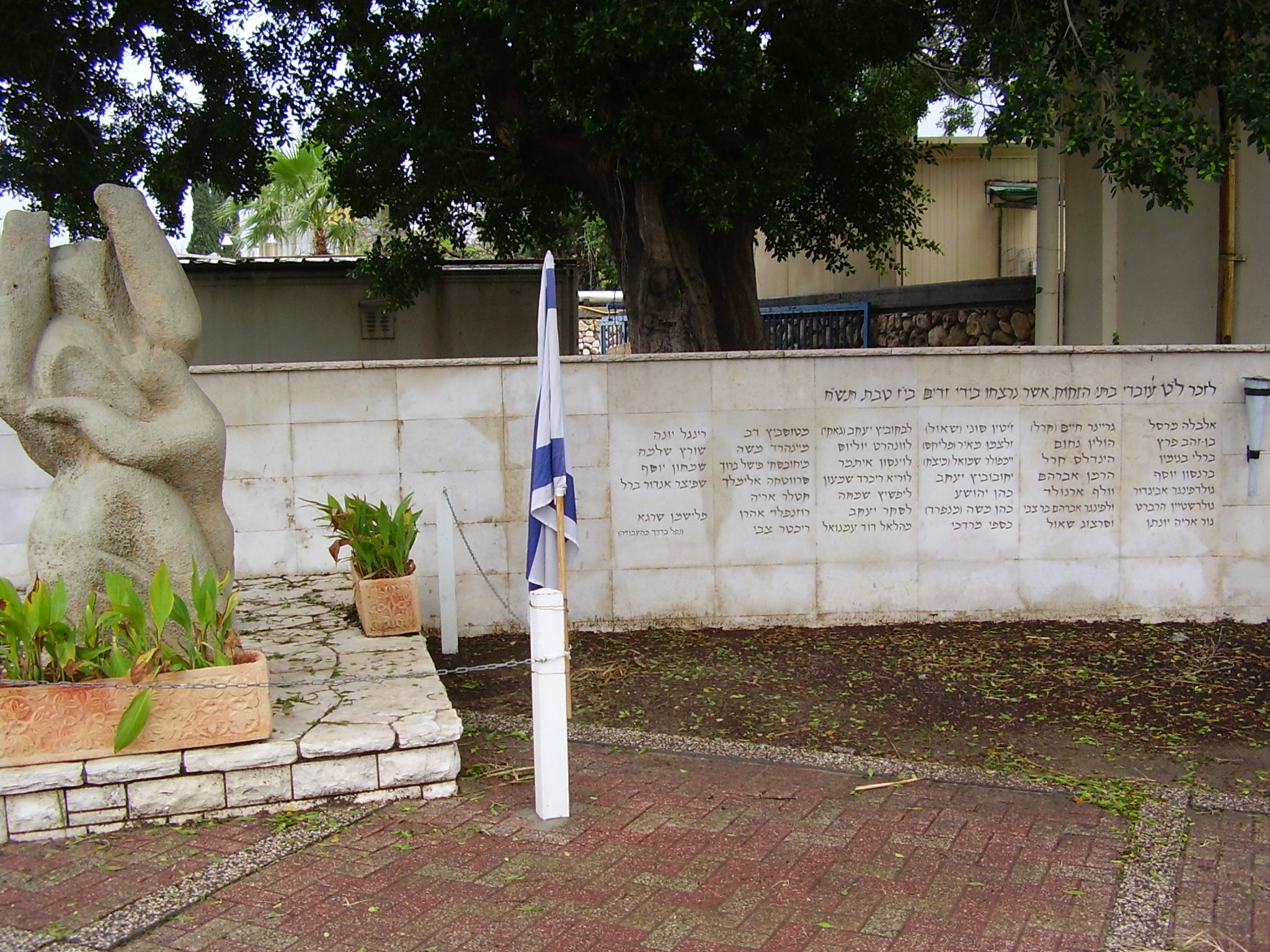 memorial in haifa oil refinery to 39 jewish workers who were massacared by arabs in 30/12/1947, in the early stages of the independence war אנדרטה בחצר בתי הזיקוק, לעובדי בתי הזיקוק שנרצחו על ידי ערבים ב-30/12/1947